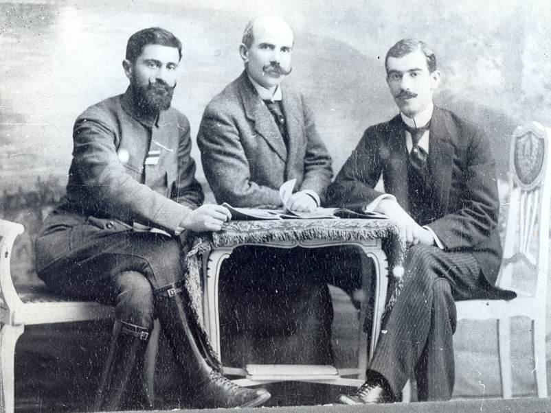 Portrait of Todor Alexandrov and Dimitar Achkov.